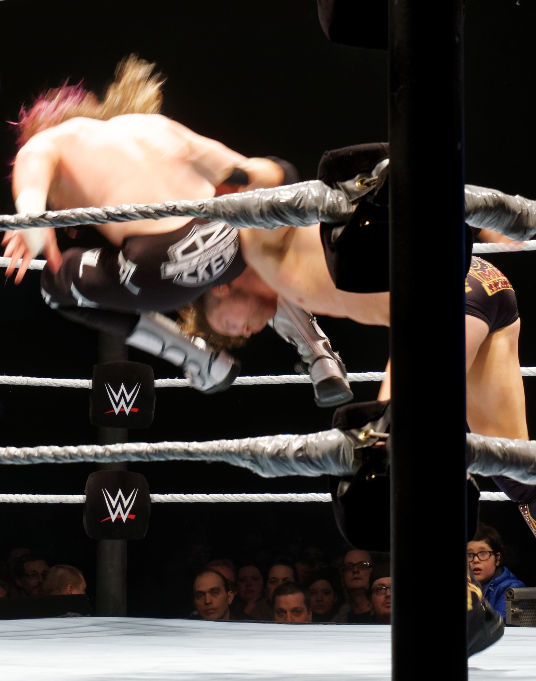 Dolph Ziggler performing Famouser on The Miz